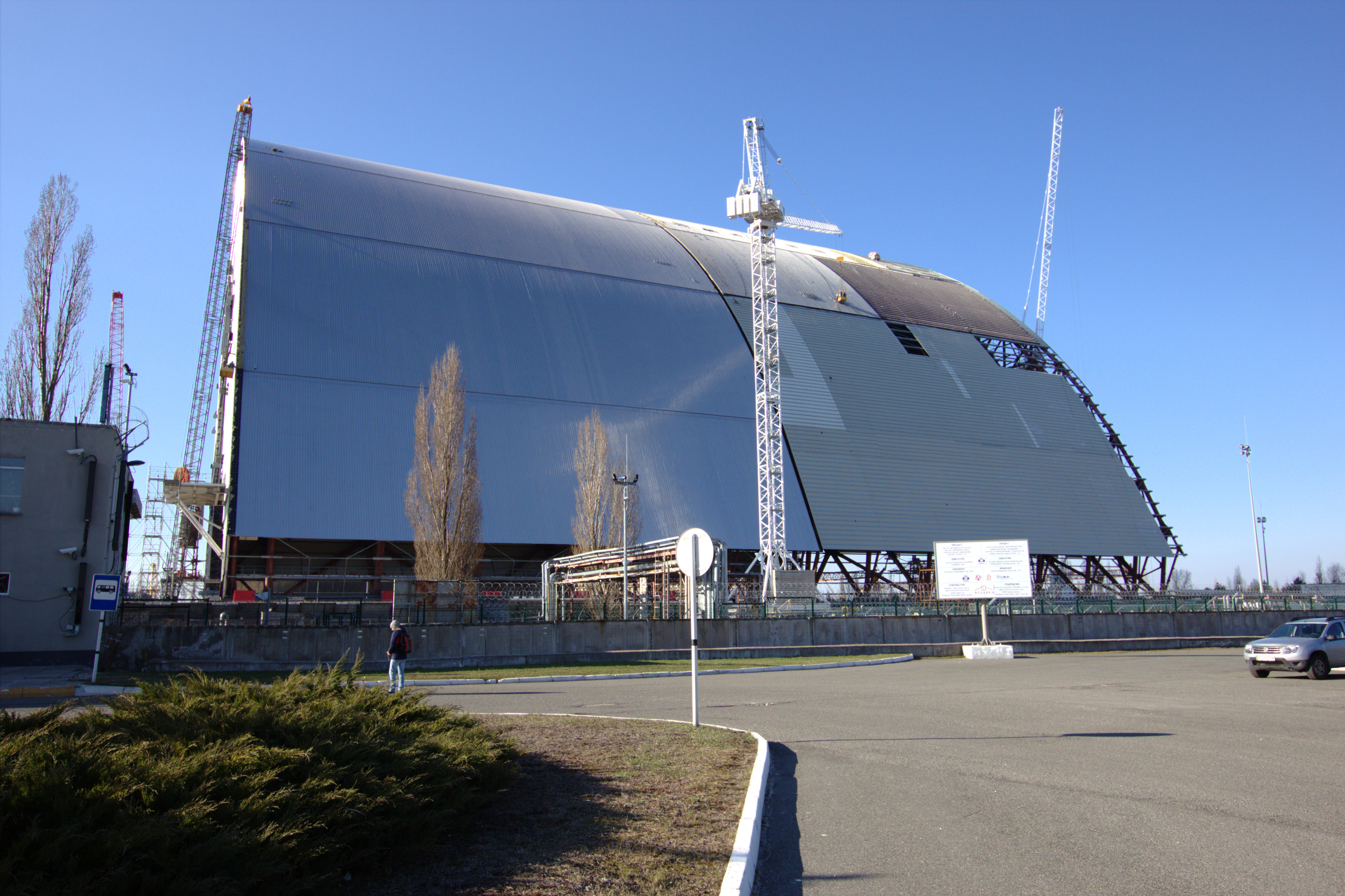 New Safe Confinement under construction in April 2015. Seen are the two sections joined together and nearing completion. Taken from adjacent car park.